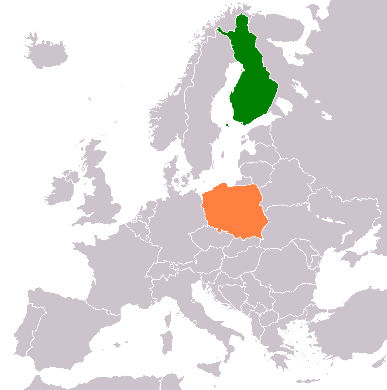 Finland-Poland locator map.